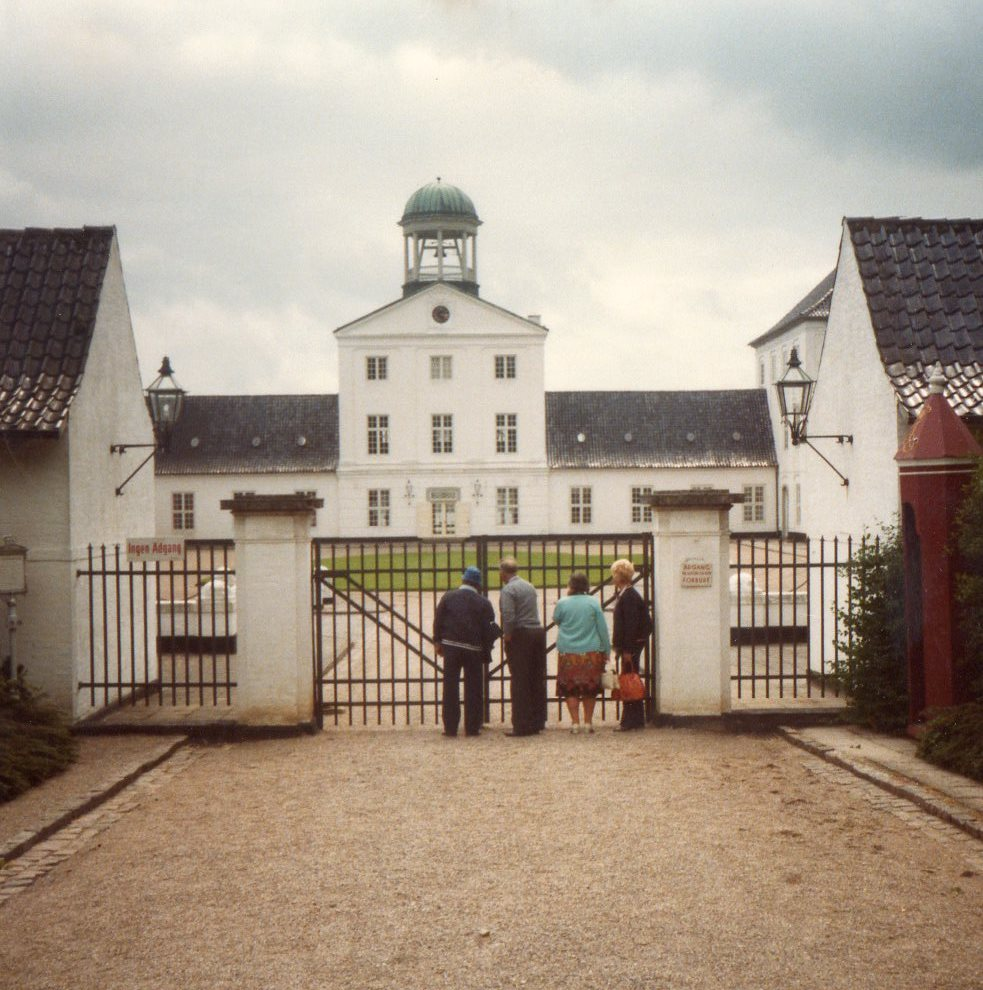 Gråsten palace by the maine gate